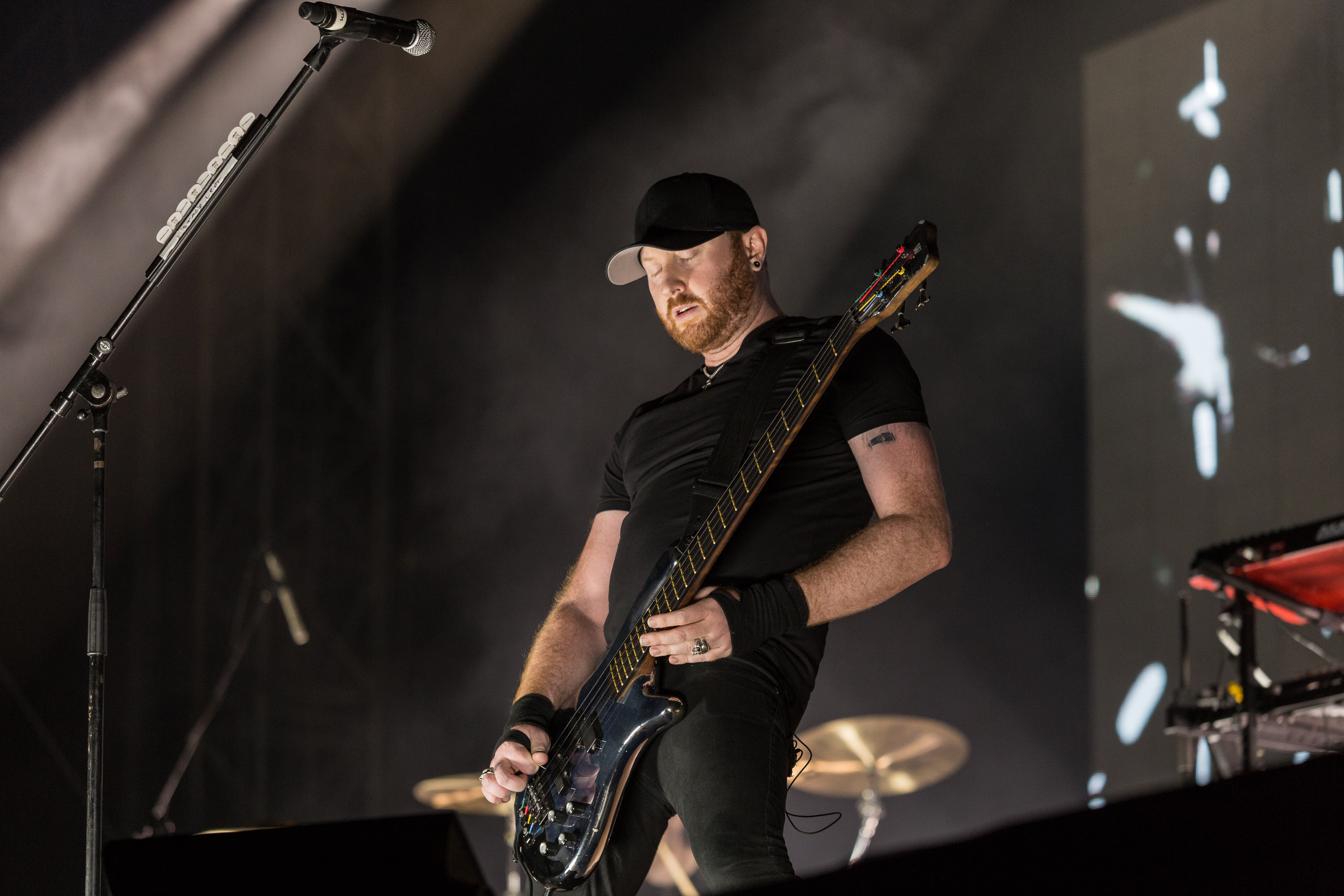 Nova Rock 2017 Gareth McGrillen from Pendulum at the Nova Rock 2017